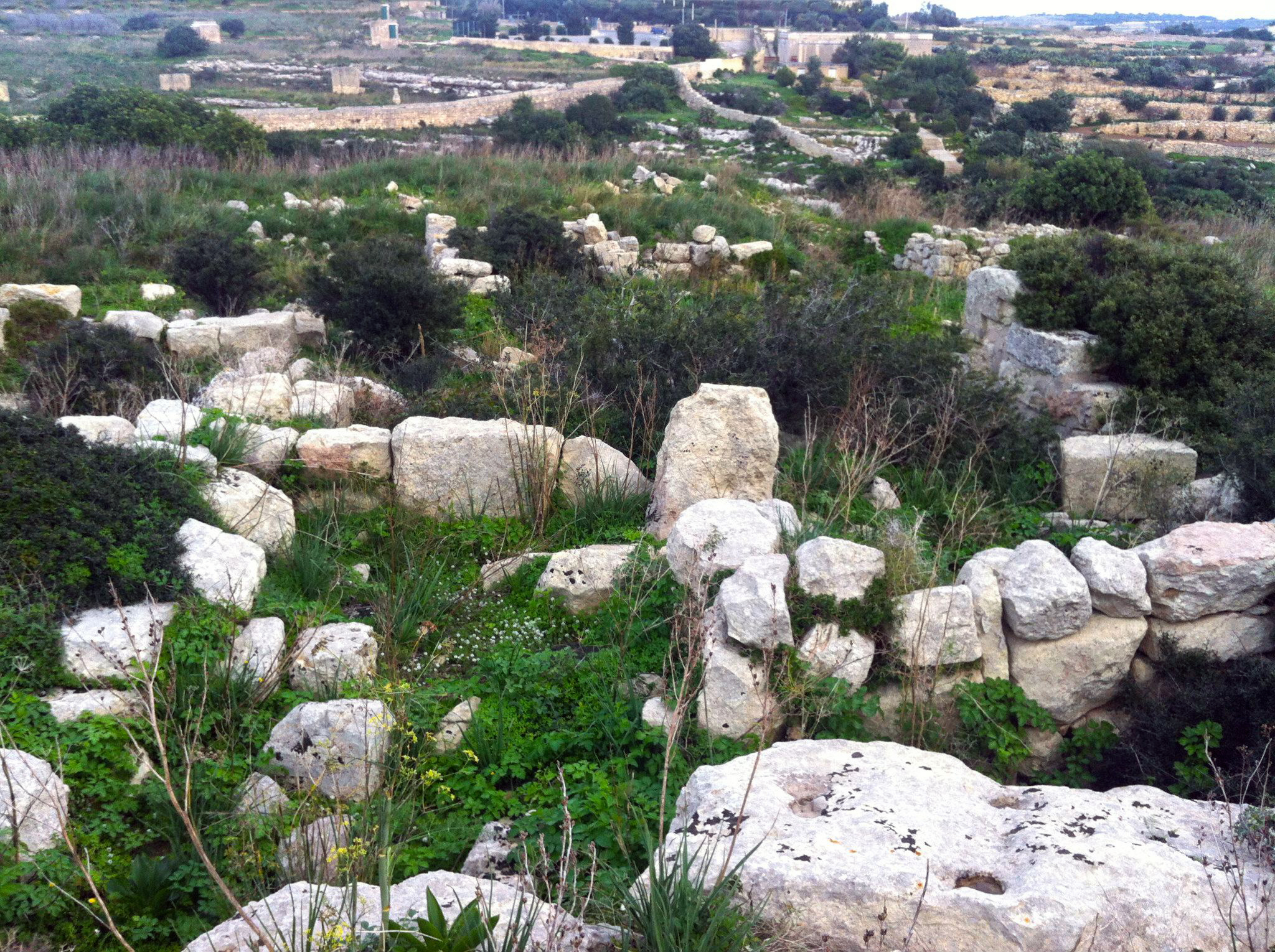 Ta' Kaċċatura Roman villa walls